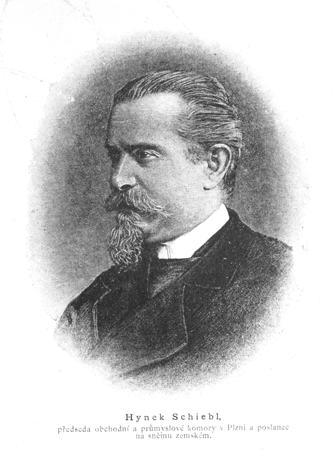 Portrait of Ignác Schiebl (1823-1901), captioned as Hynek Schiebl, Czech entrepreneur, journalist and politician.